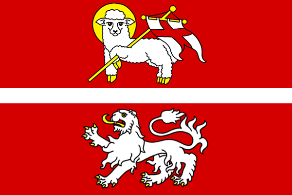 Municipal flag of Zdislava, Liberec District, Czech Republic